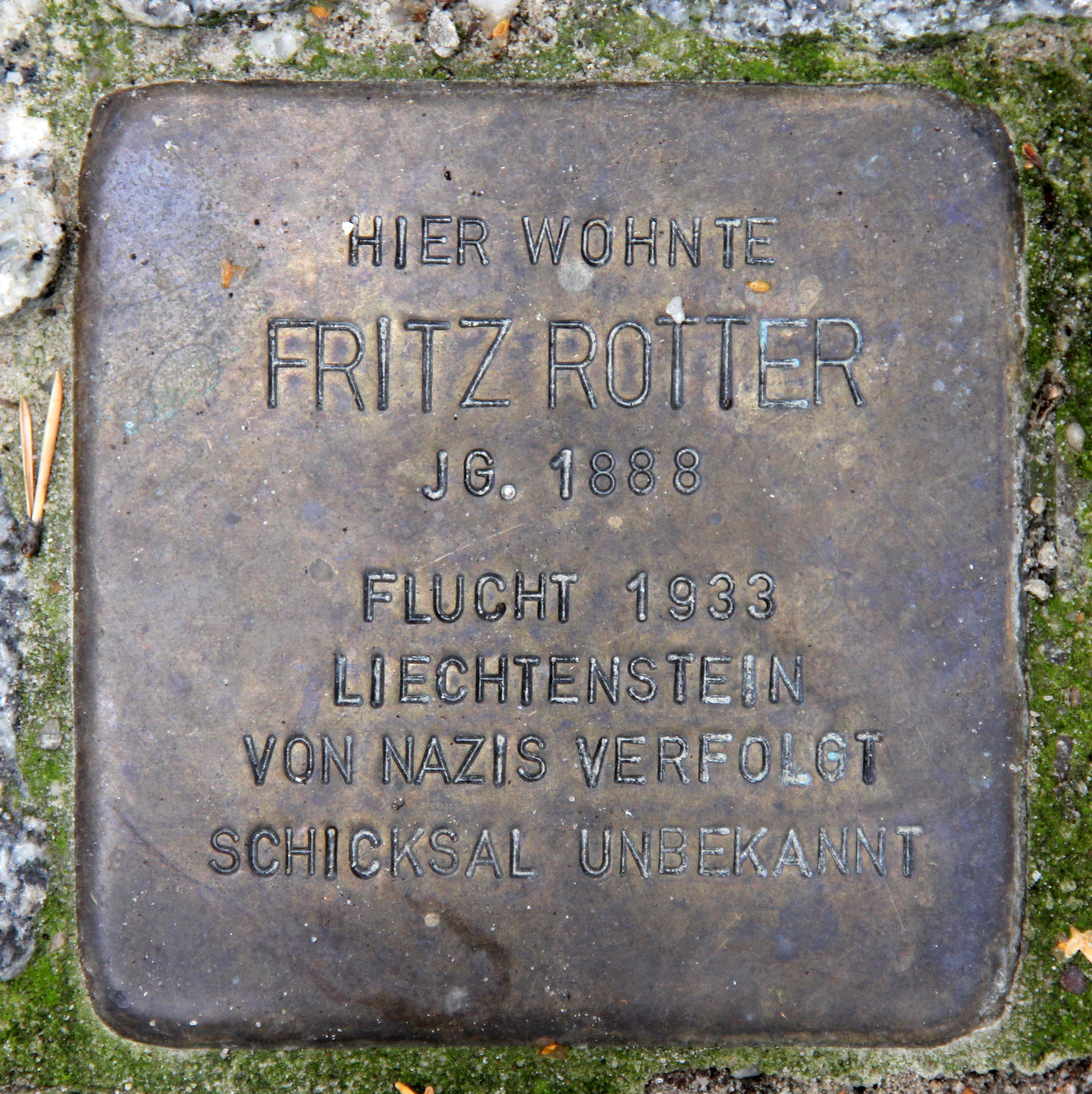 "Stolperstein" (stumbling block), Fritz Rotter, Kunz-Buntschuh-Straße 16, Berlin-Grunewald, Germany